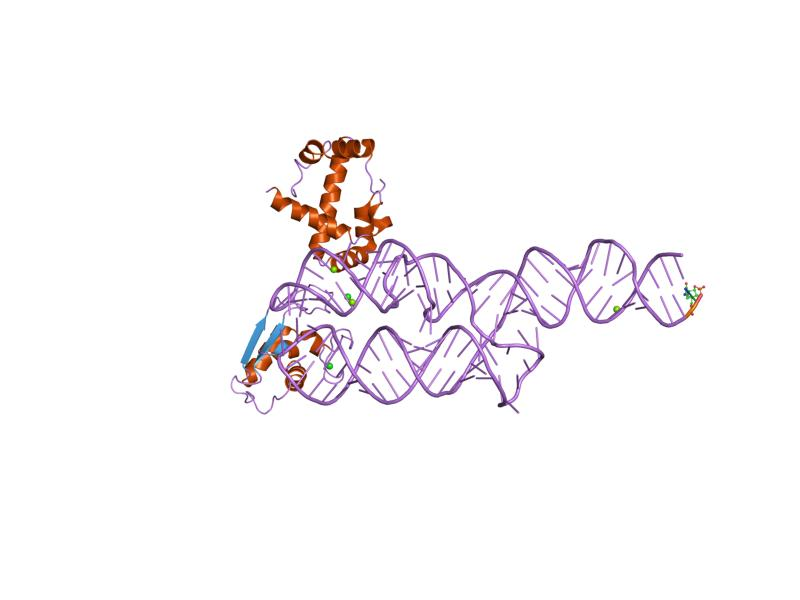 Cartoon representation of the molecular structure of protein registered with 1mfq code.